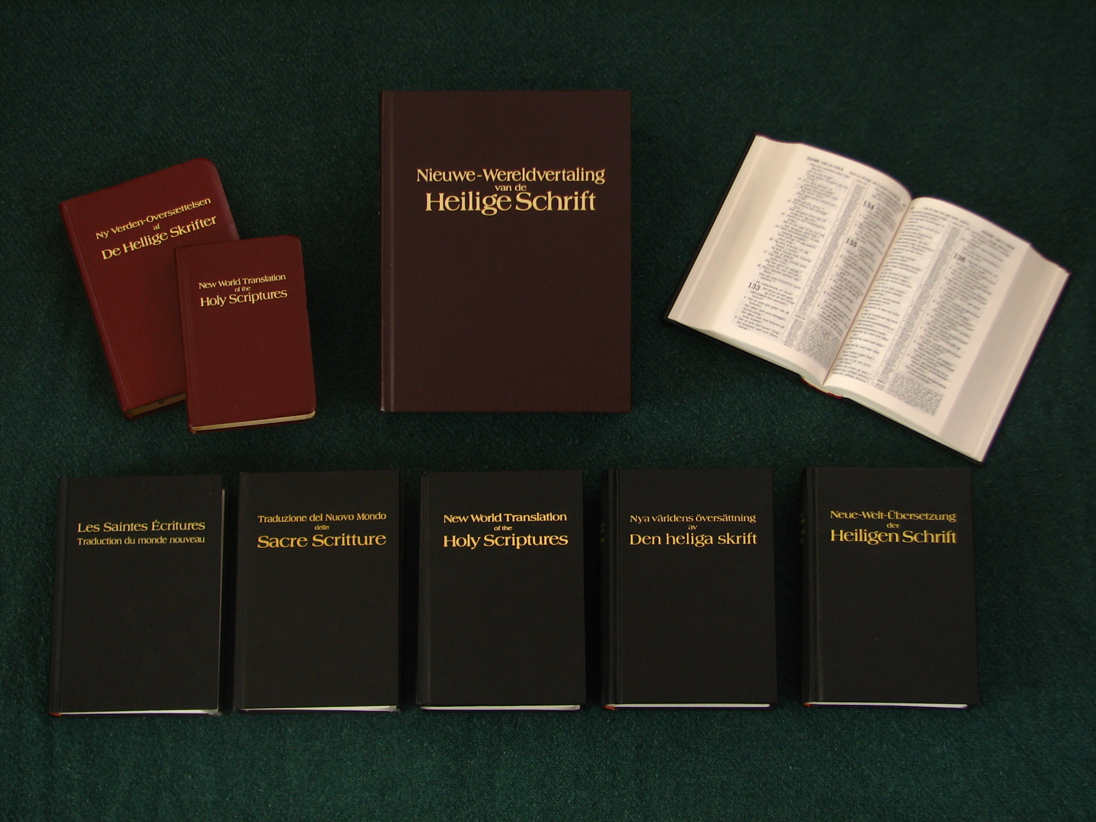 New World Translation of the Holy Scriptures (1984 version) in various languages and versions